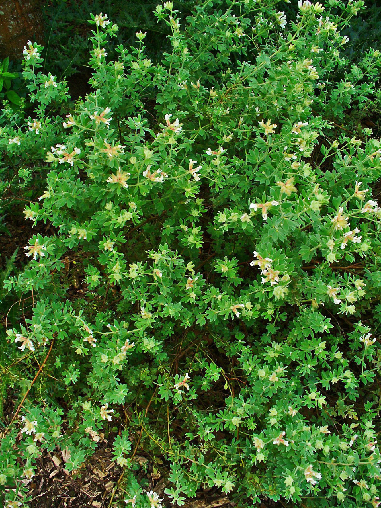 Dorycnium hirsutum, Fabaceae, Hairy Doris, habitus; Botanical Garden KIT, Karlsruhe, Germany.